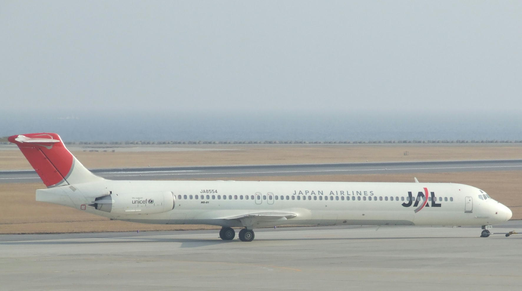 Japan Airlines MD-81 JA8554